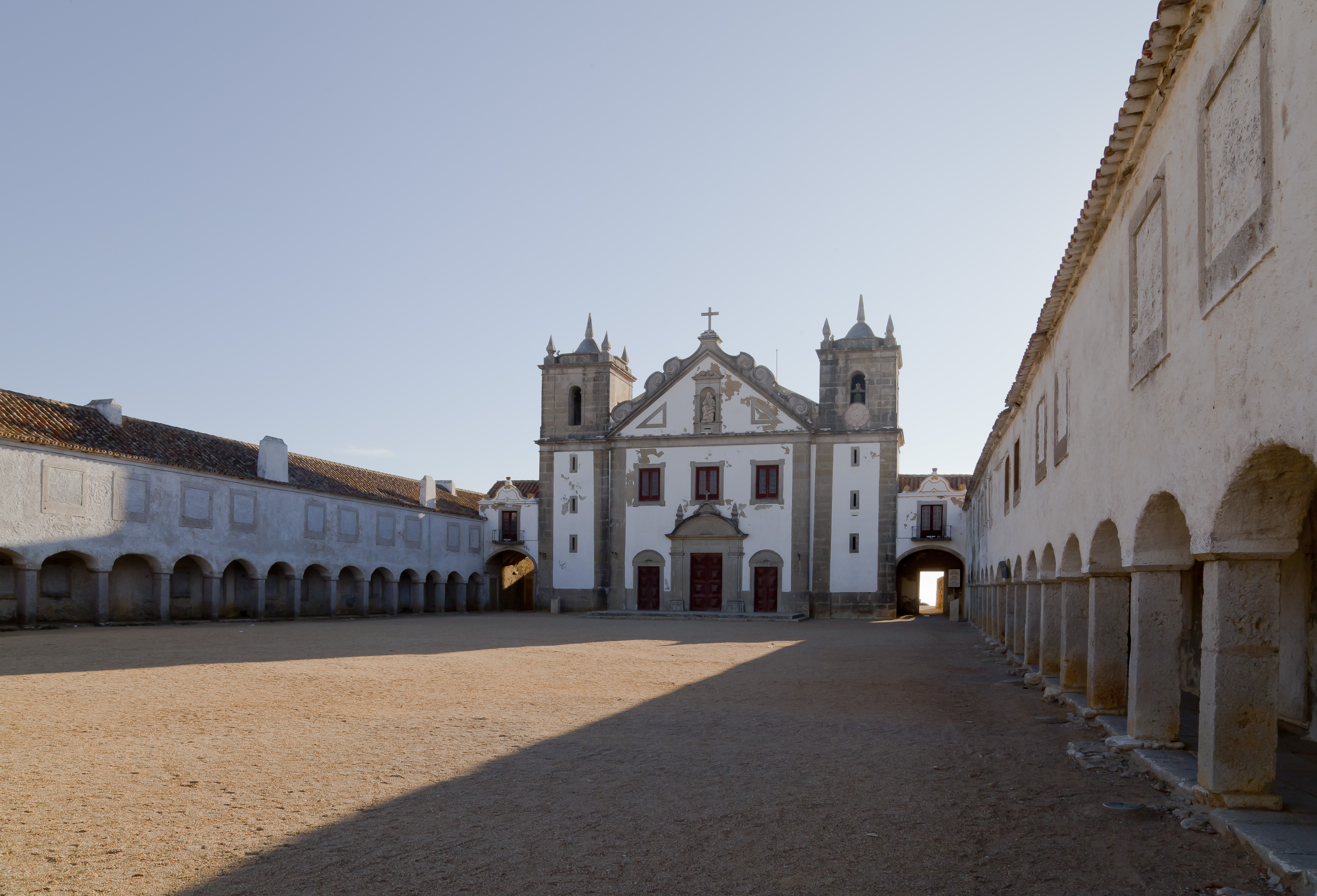 Casa dos Cirios, Cape Espichel, Portugal